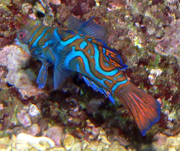 Photo of Category:Synchiropus splendidus (mandarinfish) at the Steinhart Aquarium in San Francisco